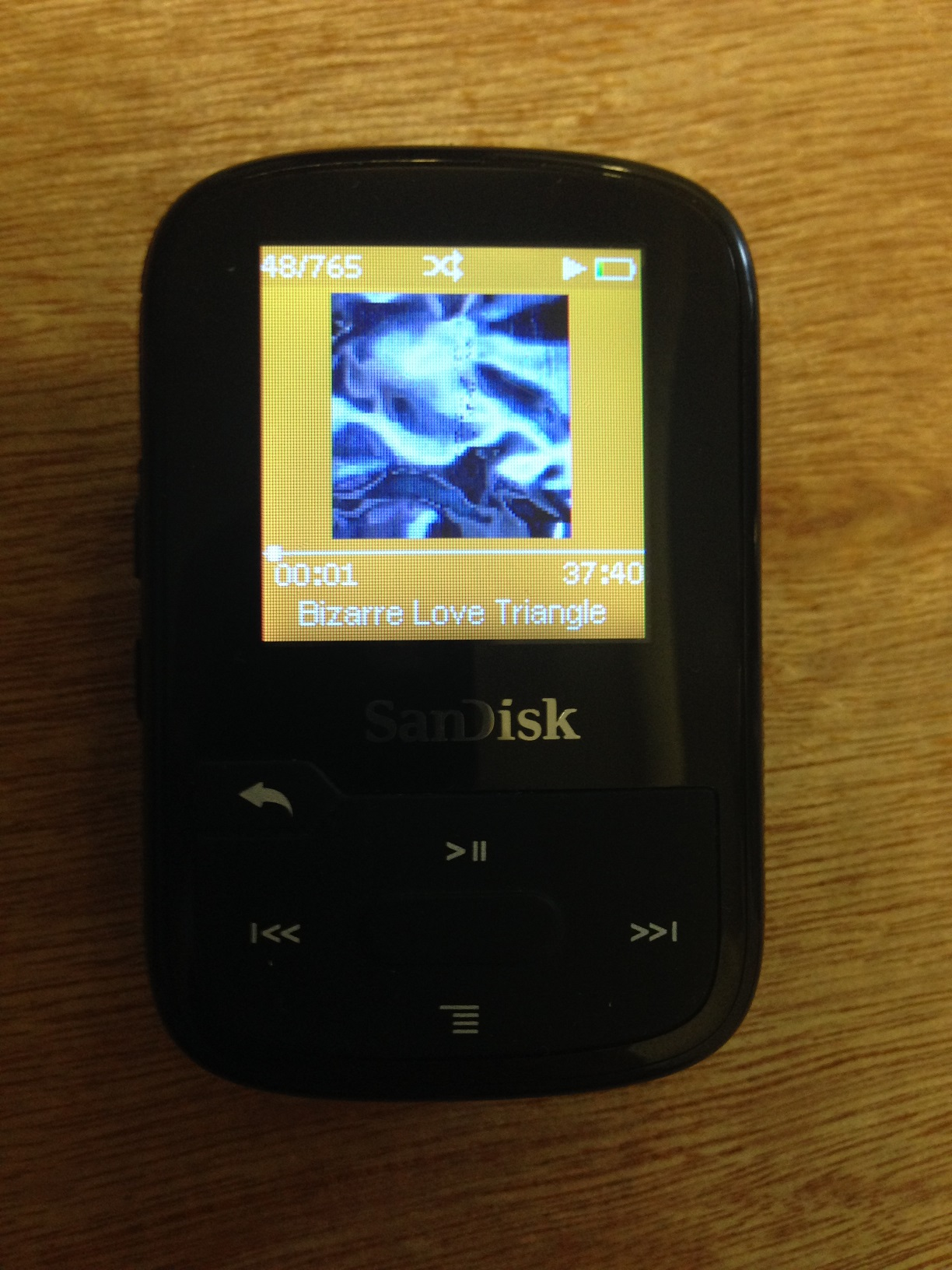 This is the 21st MP3 player which was launched on 2016 and includes Bluetooth technology.